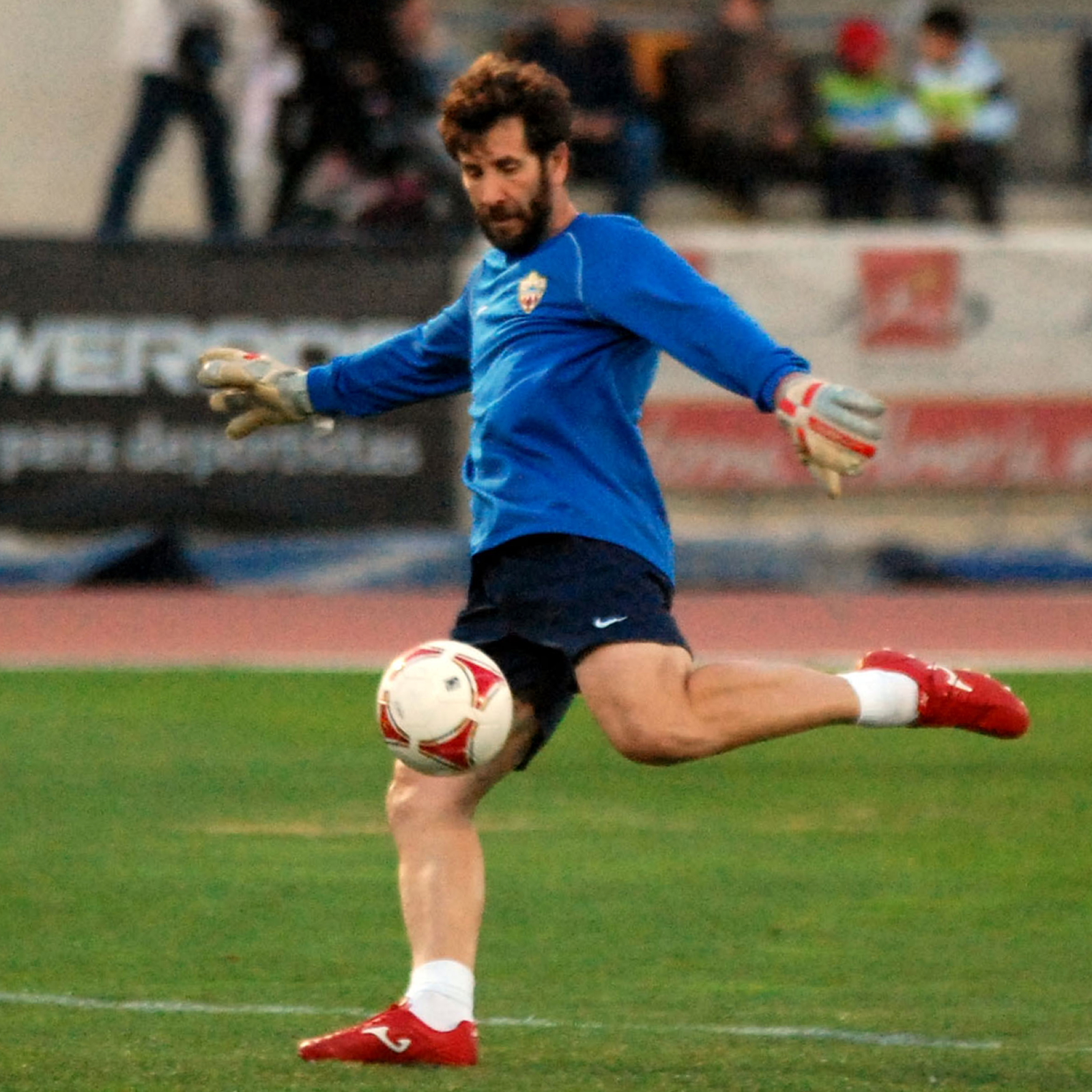 Ituarte works for UD Almería B for six years